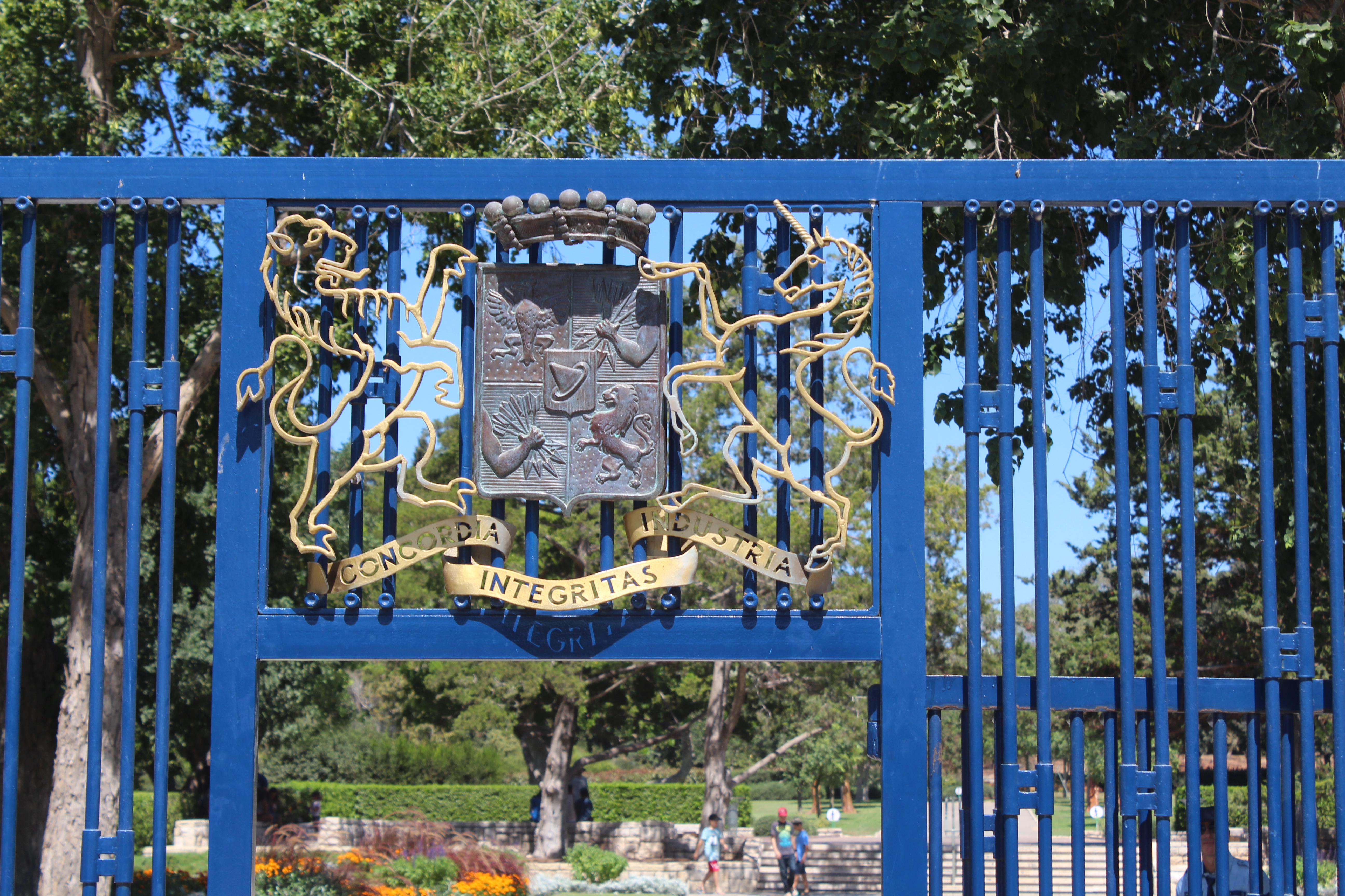 Ramat Hanadiv ( Heights of the Benefactor) is a nature park and garden in northern Israel, covering 4.5 km (3 mi) at the southern end of Mount Carmel between Zikhron Ya'akov to the north and Binyamina to the south